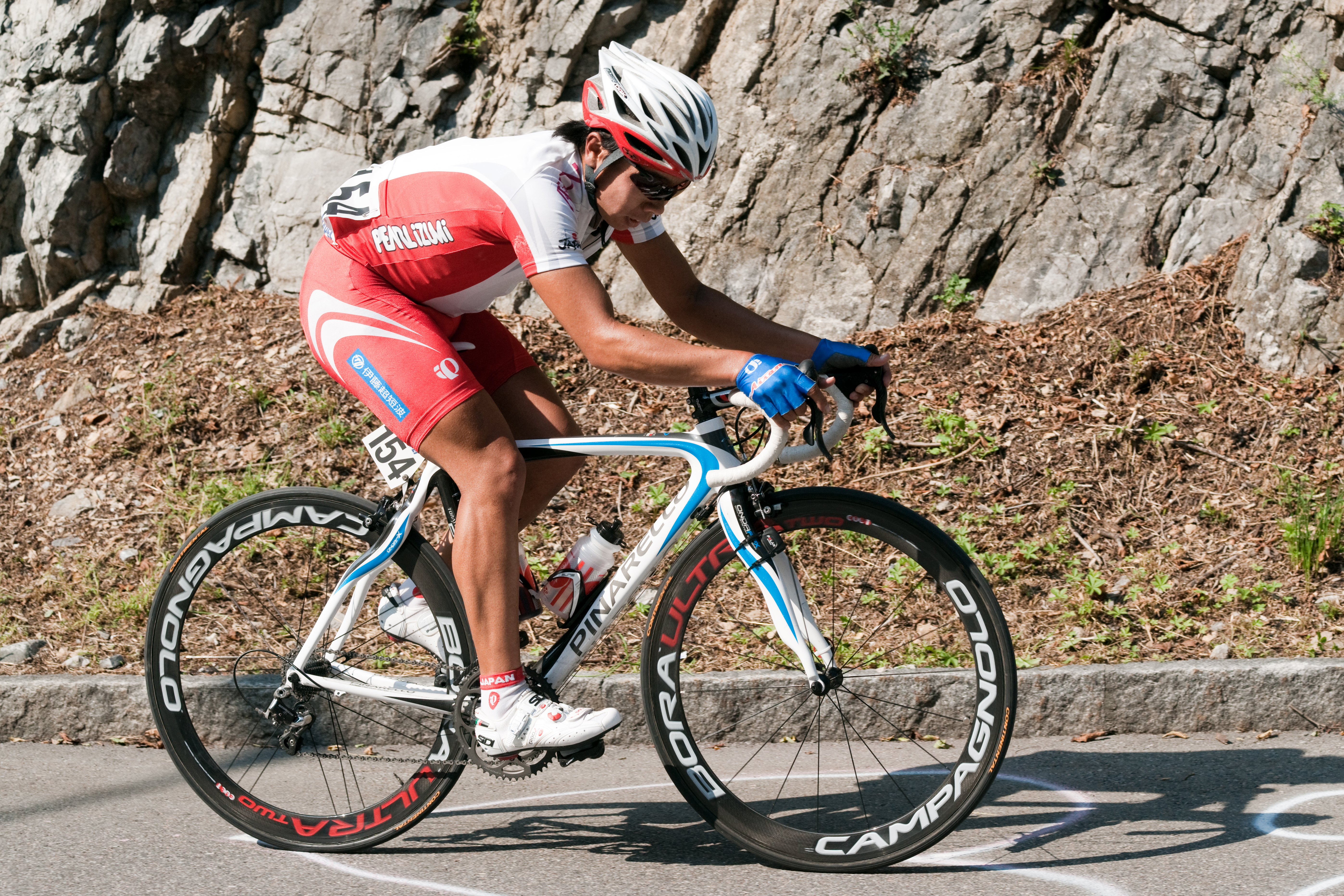 Taiji Nishitani during the 2009 UCI Road World Championships in Mendrisio, Switzerland.